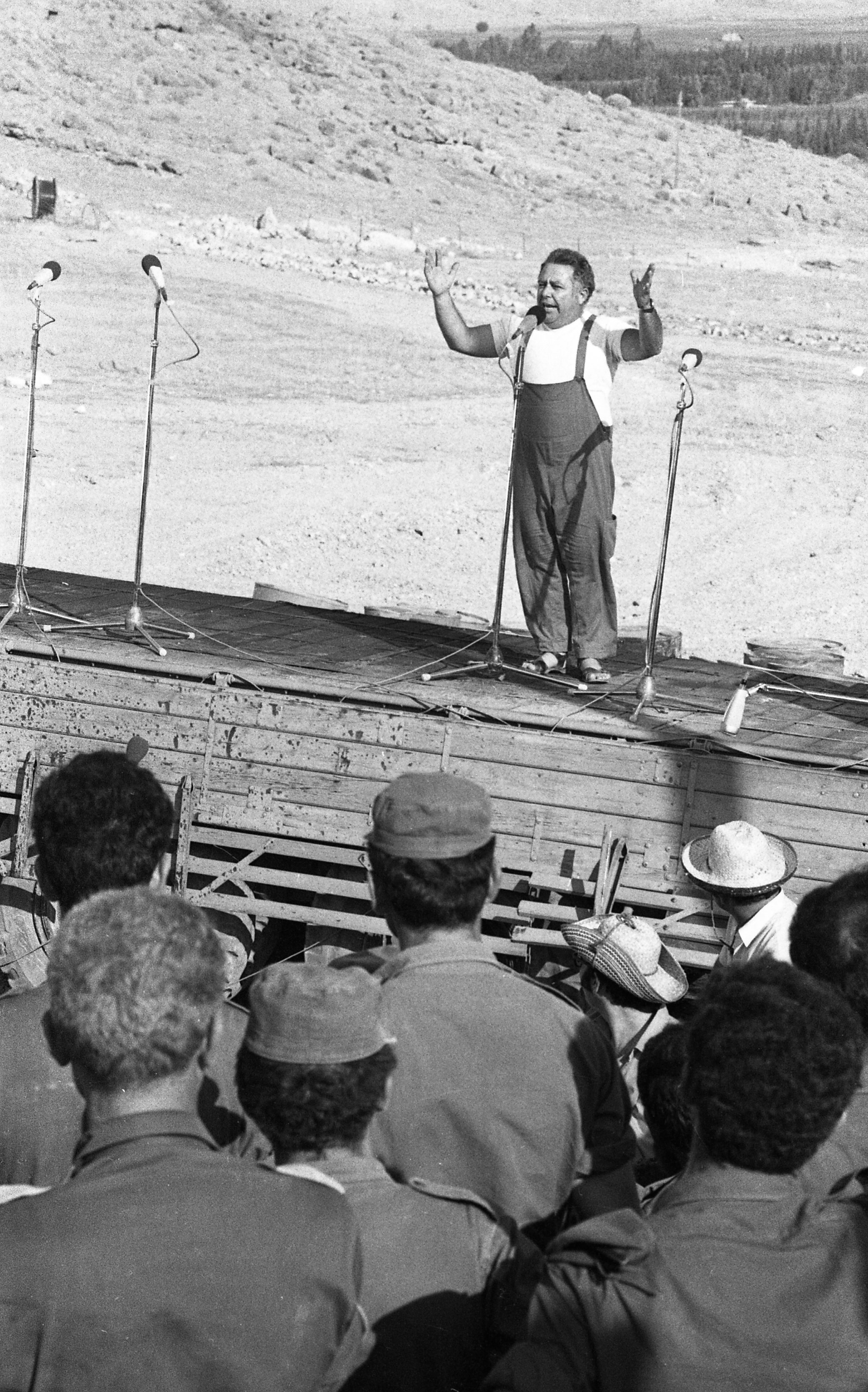 Bomba Tsur performing in front of soldiers.